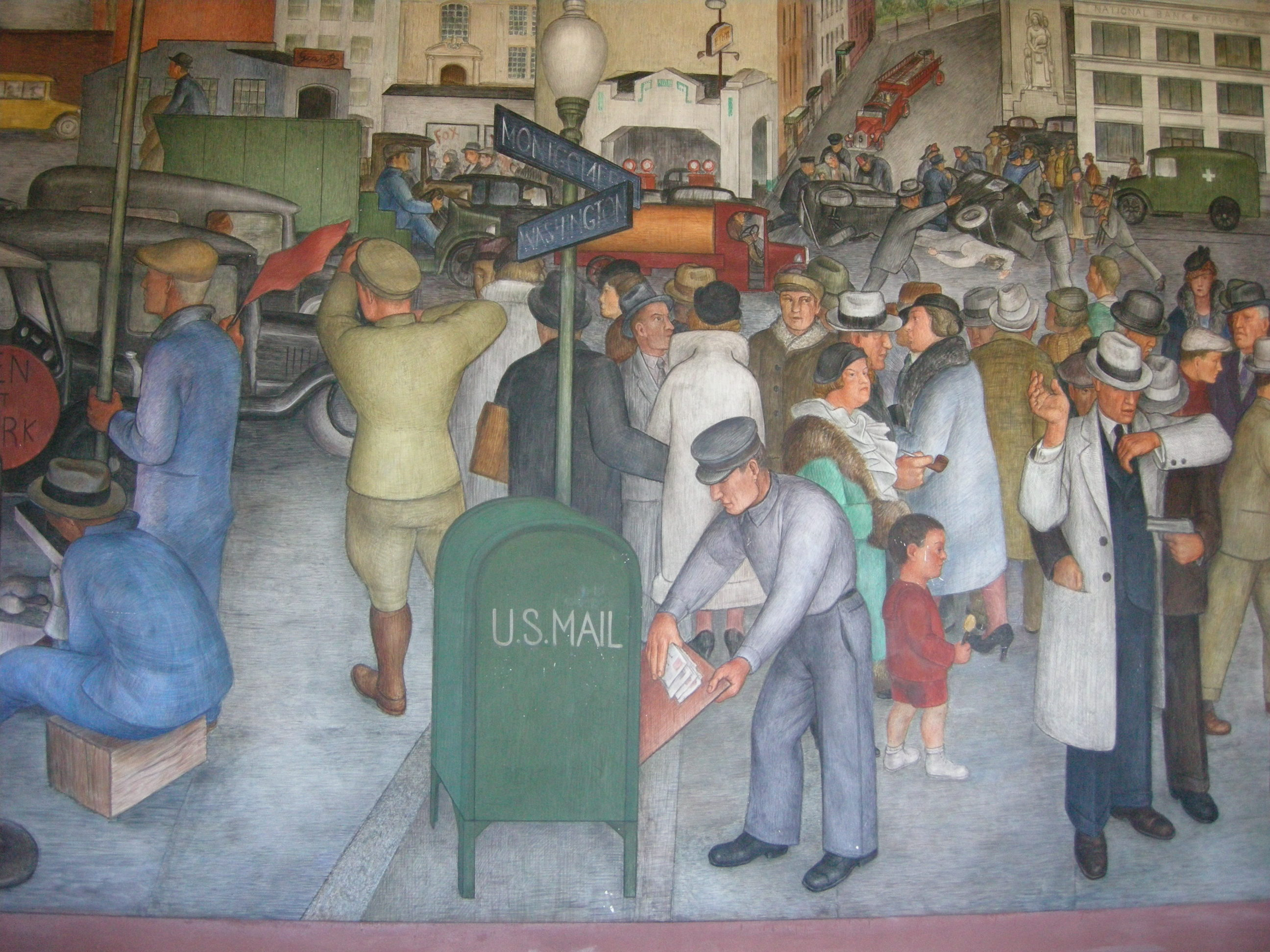 Coit Tower frescos